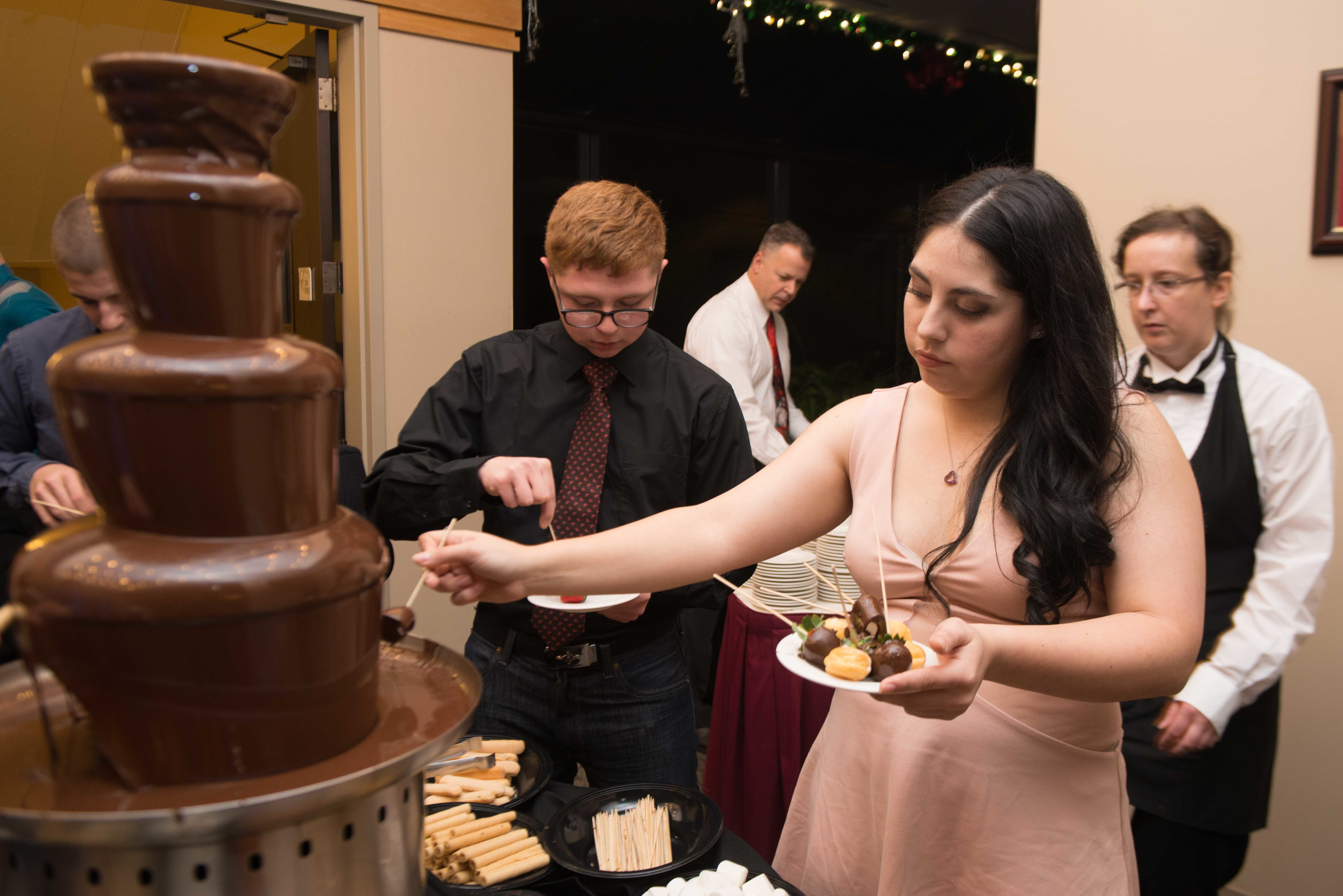 151210-N-DA737-021 SILVERDALE, Wash. (Dec. 10, 2015) - Aviation Ordnanceman Airman Recruit Christy Gesell, from Las Vegas, dips a marshmallow into a chocolate fountain during USS John C. Stennis' (CVN 74) command holiday party. Stennis' crew is currently in port training for future deployments. (U.S. Navy photo by Mass Communication Specialist 3rd Class Jonathan Jiang / Released) Unit: USS John C. Stennis (CVN 74)